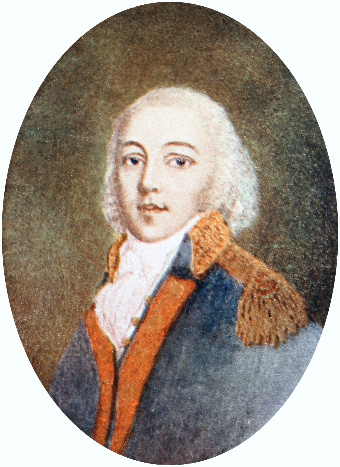 Angus McDonald (1727 – August 19, 1778) was a prominent Scottish American military officer, frontiersman, sheriff and landowner in Virginia. McDonald served in various military leadership roles in the French and Indian War, Dunmore's War and the American Revolutionary War. McDonald was the progenitor of an American branch of the Clan MacDonell of Glengarry that has included accomplished military leaders, educators, politicians and government officials.